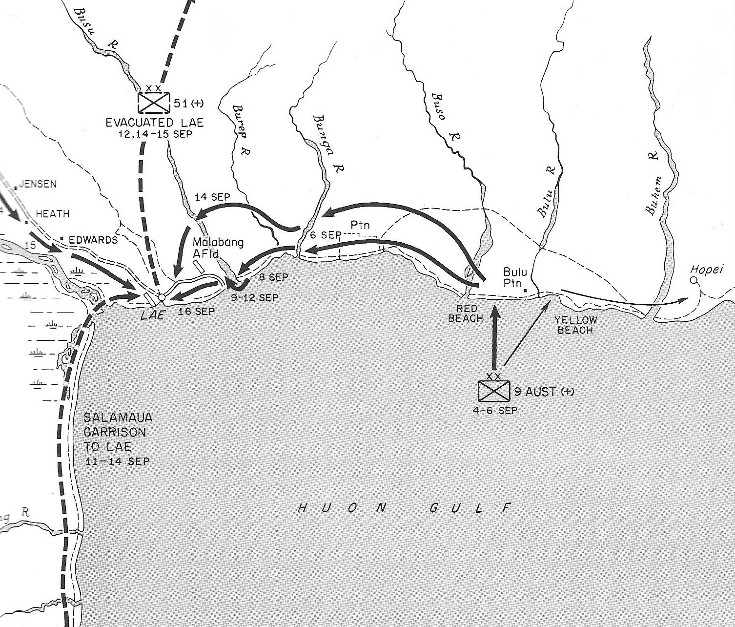 Map of the Advance on Lae, September 1942